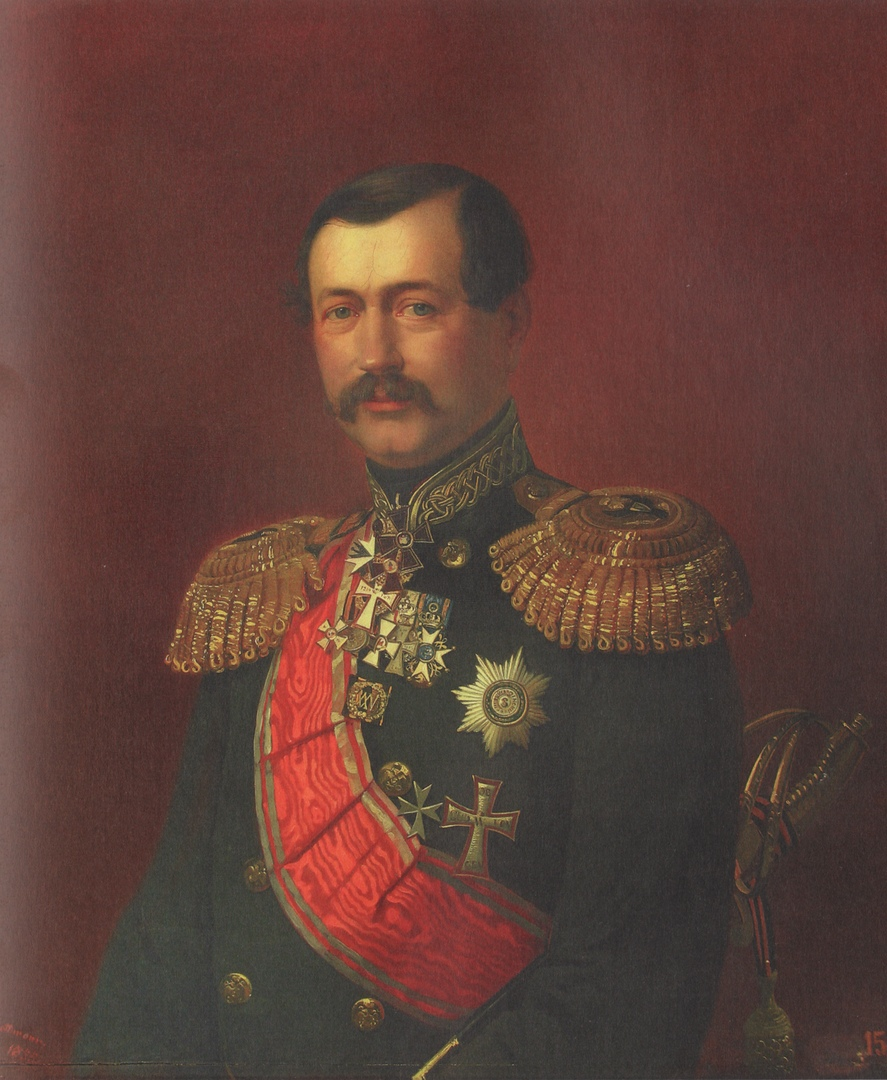 Gottlieb Friedrich von Glasenapp (by Egor Botman)